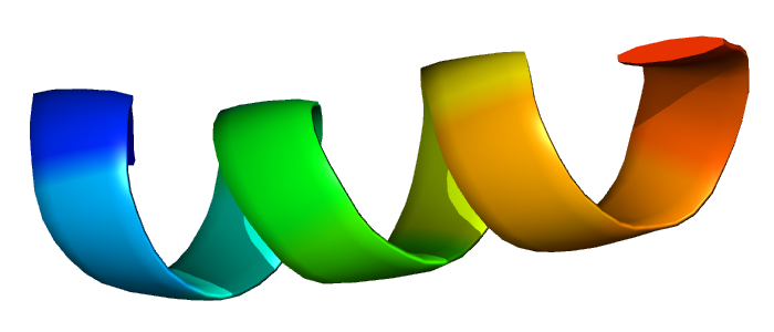 Structure of protein CAMP.Based on PyMOL rendering of PDB 2FBS.